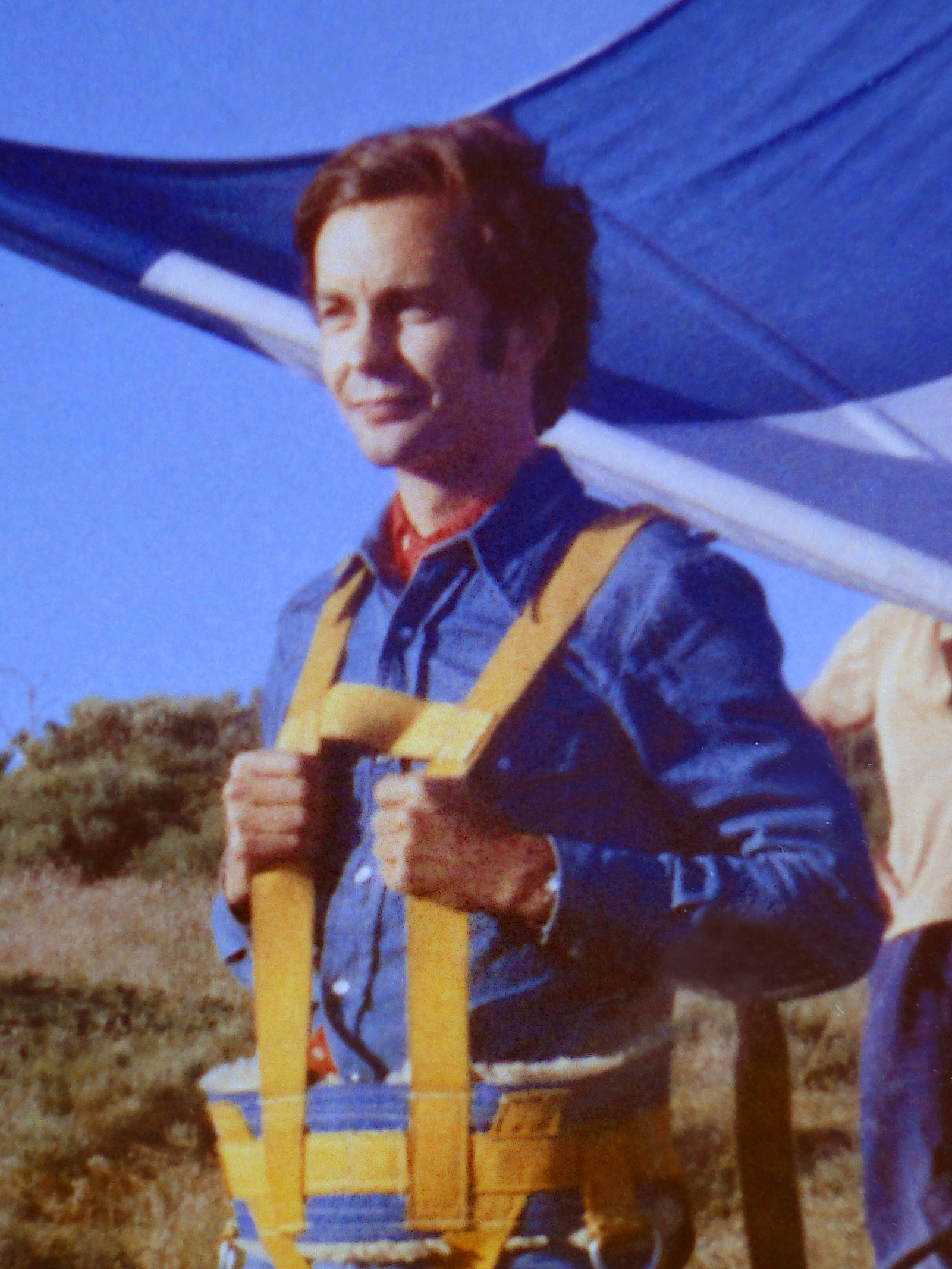 The creator of the Delta-Plane, Christian Paul-Depasse.